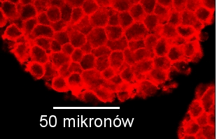 from Image:Cellsize.jpg: "Image of cell with size scale from wikibook Cell Biology textbook (licensed under the GFDL): Description from original page: Microscopy of cells with size scale. P19 mouse embryonal carcinoma cells were fixed with methanol and stained using an antibody that specifically binds the protein α-catenin. The α-catenin protein is concentrated at the cell surface where it functions to anchor cell surface cadherin cell adhesion proteins to the intracellular cytoskeleton. The locations of α-catenin proteins were visualized by scanning laser confocal microscopy. These are average size animal cells. Source: my personal image. Uploaded for use on the wikibooks:Cell history I page. The copyright to this image is retained by John Schmidt (JWSchmidt). Permission is granted to copy, distribute and/or modify this image under the terms of the GFDL, as indicated in the fine print at the bottom of this page. If you do not want to use this image under the terms of the GFDL, you can alternatively use it under the terms of the following license: The image at the top of this page is licensed under a Creative Commons License. Specifically, it is licensed under the Creative Commons Attribution-NonCommercial-ShareAlike License, colloquially known as "cc-by-nc-sa". "